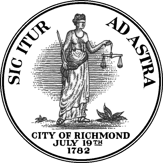 Seal of Richmond, Virginia, adopted in 1908.